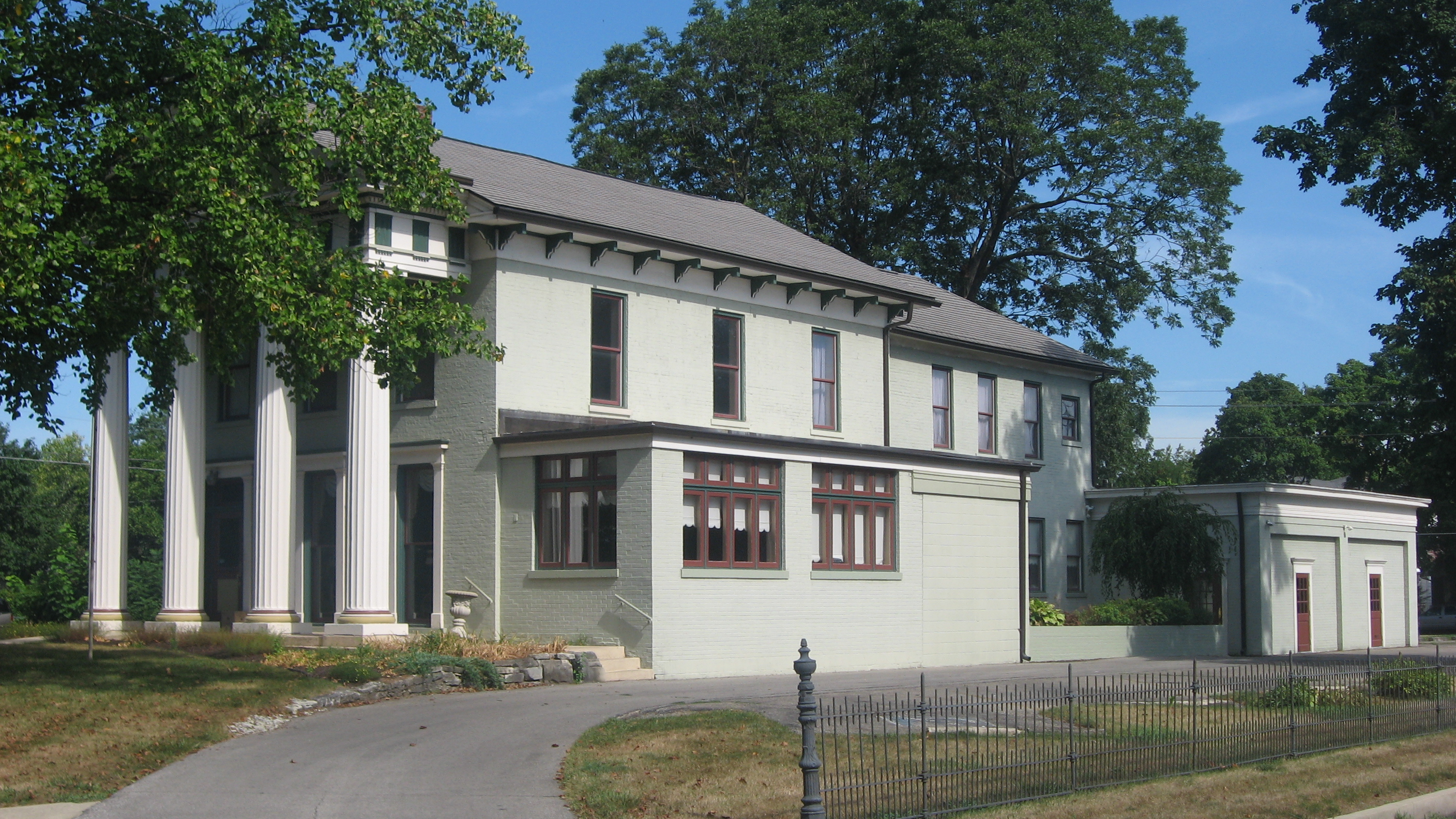 Eastern side and front of the Neil McCullough House (now Cosmetic and Family Dentistry), located at 226 W. Eighth Street in Anderson, Indiana, United States. Built in 1879, it is part of the West Eighth Street Historic District, a historic district that is listed on the National Register of Historic Places.